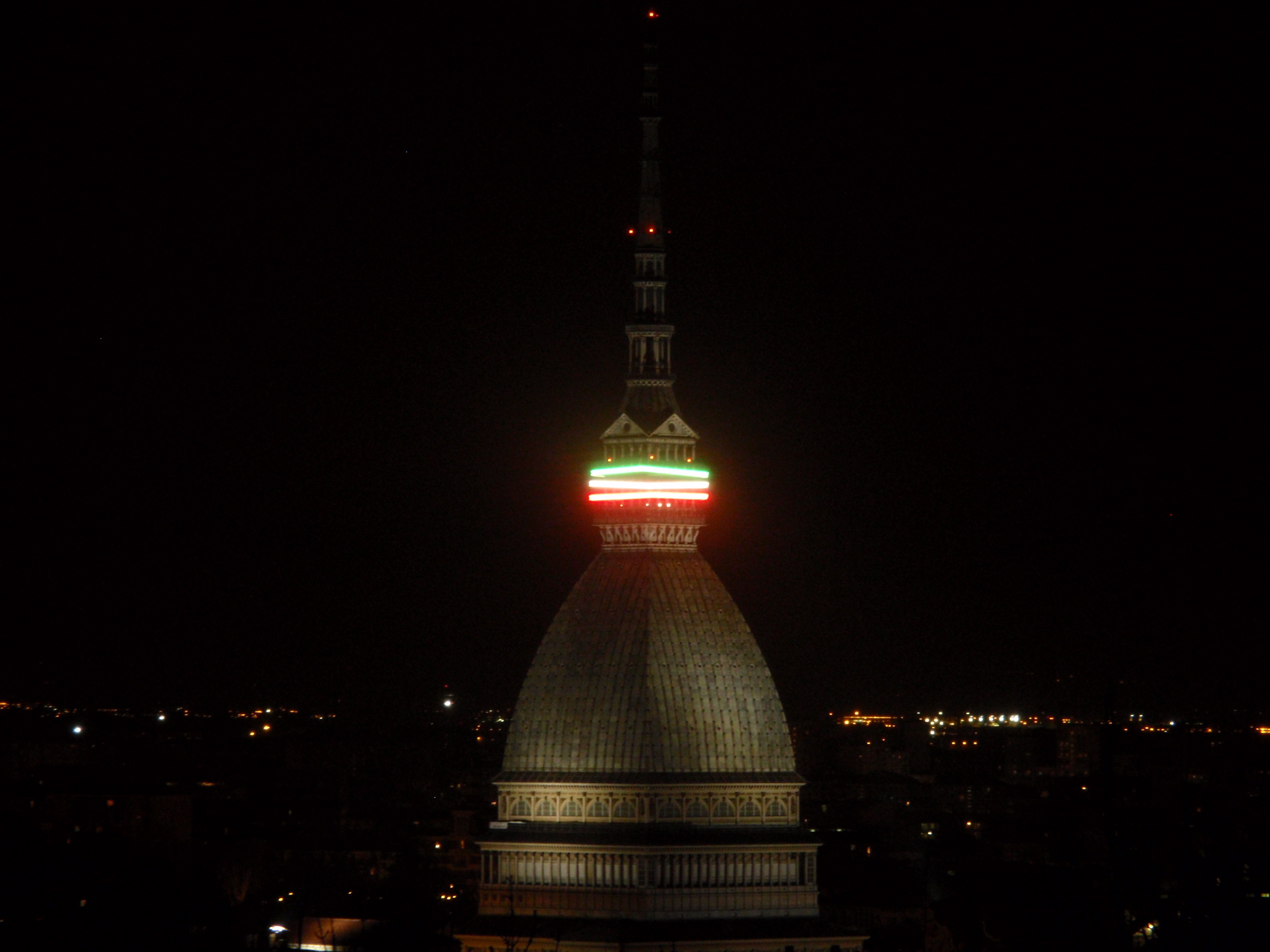 Night landscape with Mole Antonelliana, in Turin, surrounded by three colors of Italian flag